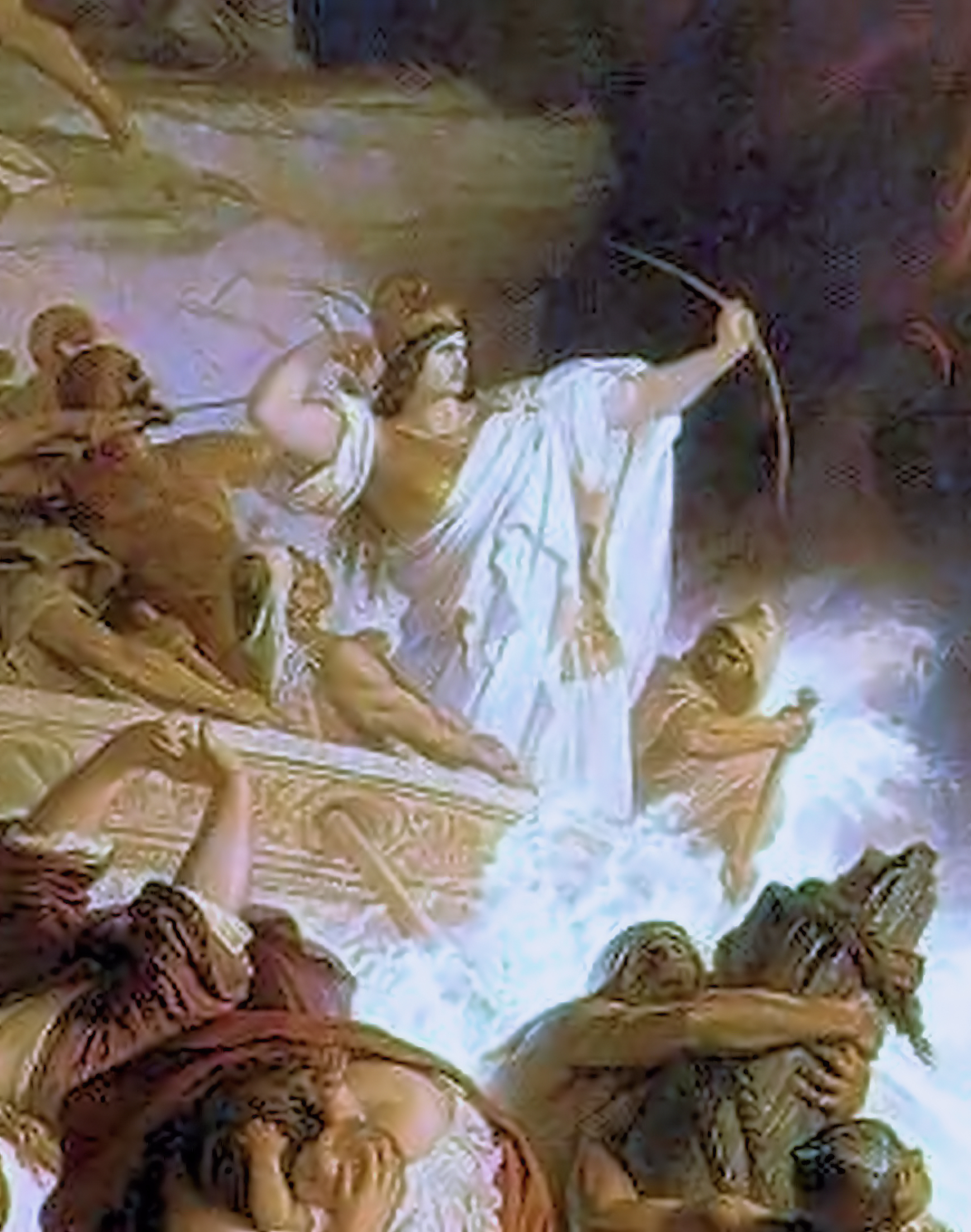 Artemisia at the Battle of Salamis. On the identification with Artemisia: "...Above the ships of the victorious Greeks, against which Artemisia, the Xerxes' ally, sends fleeing arrows...". Original German description: "Die neue Erfindung, welche Kaulbach für den neuen hohen Beschützer zu zeichnen gedachte, war wahrscheinlich „die Schlacht von Salamis“. Ueber den Schiffen der siegreichen Griechen, gegen welche Artemisia, des Xerxes Bundesgenossin, fliehend Pfeile sendet, sieht man in Wolken die beiden Ajaxe" in Altpreussische Monatsschrift Nene Folge p.300